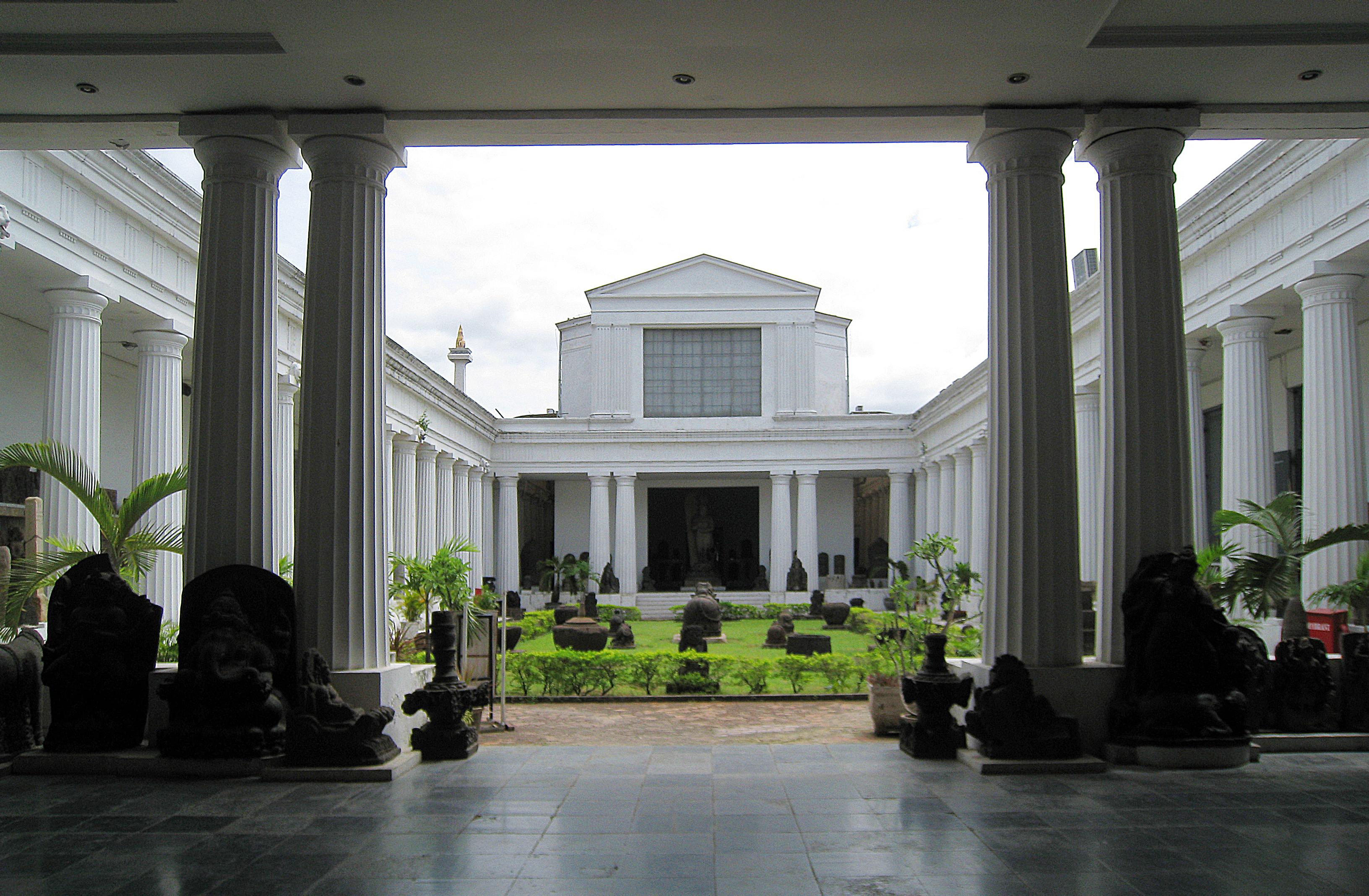 The peristylia (inner courtyard) of the National Museum of Indonesia, Jakarta, display statues of ancient Indonesian Hindu-Buddhist era.